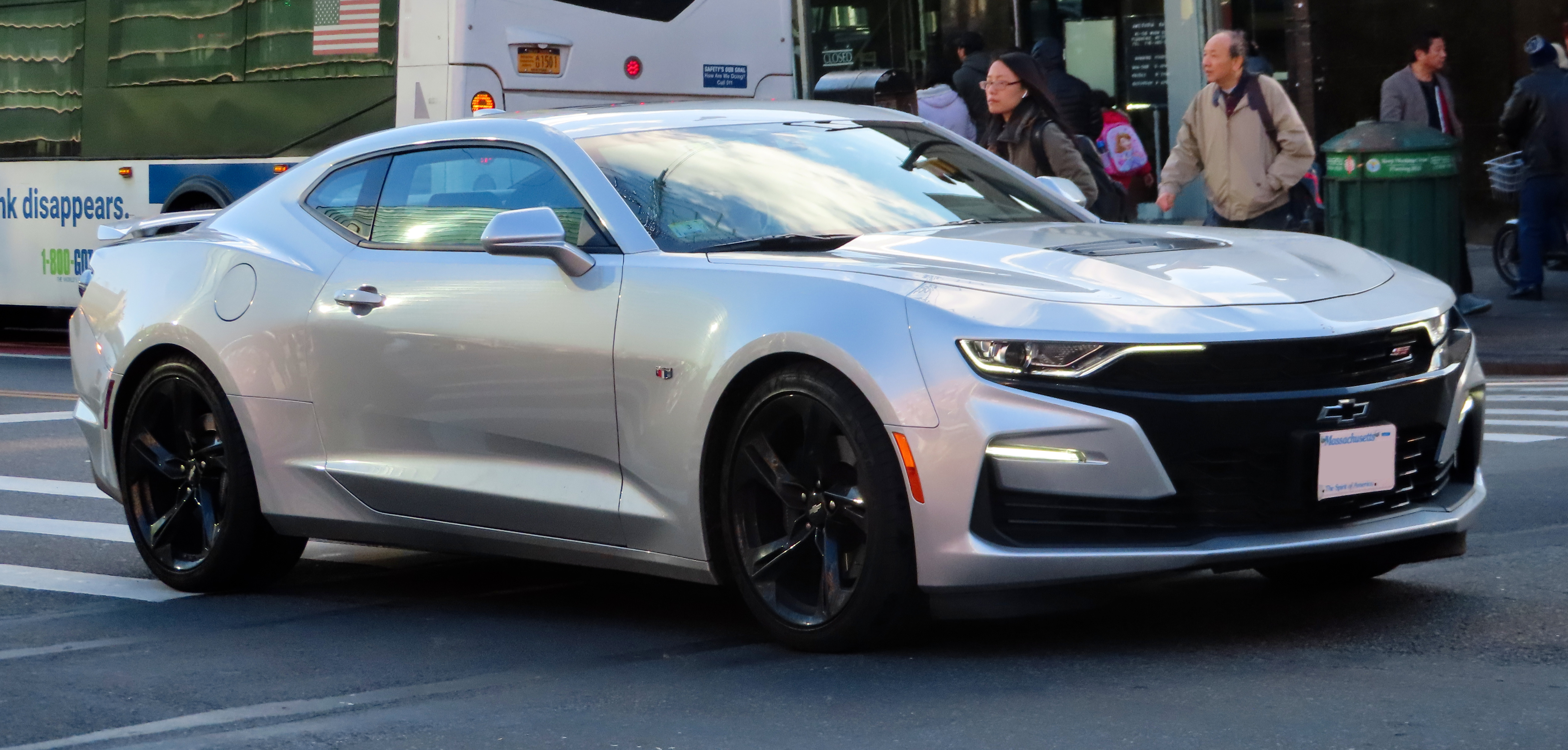 A 2019 Chevrolet Camaro 2SS photographed in Flushing, Queens, New York, USA